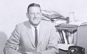 Nebraska Cornhuskers athletic director Bill Orwig